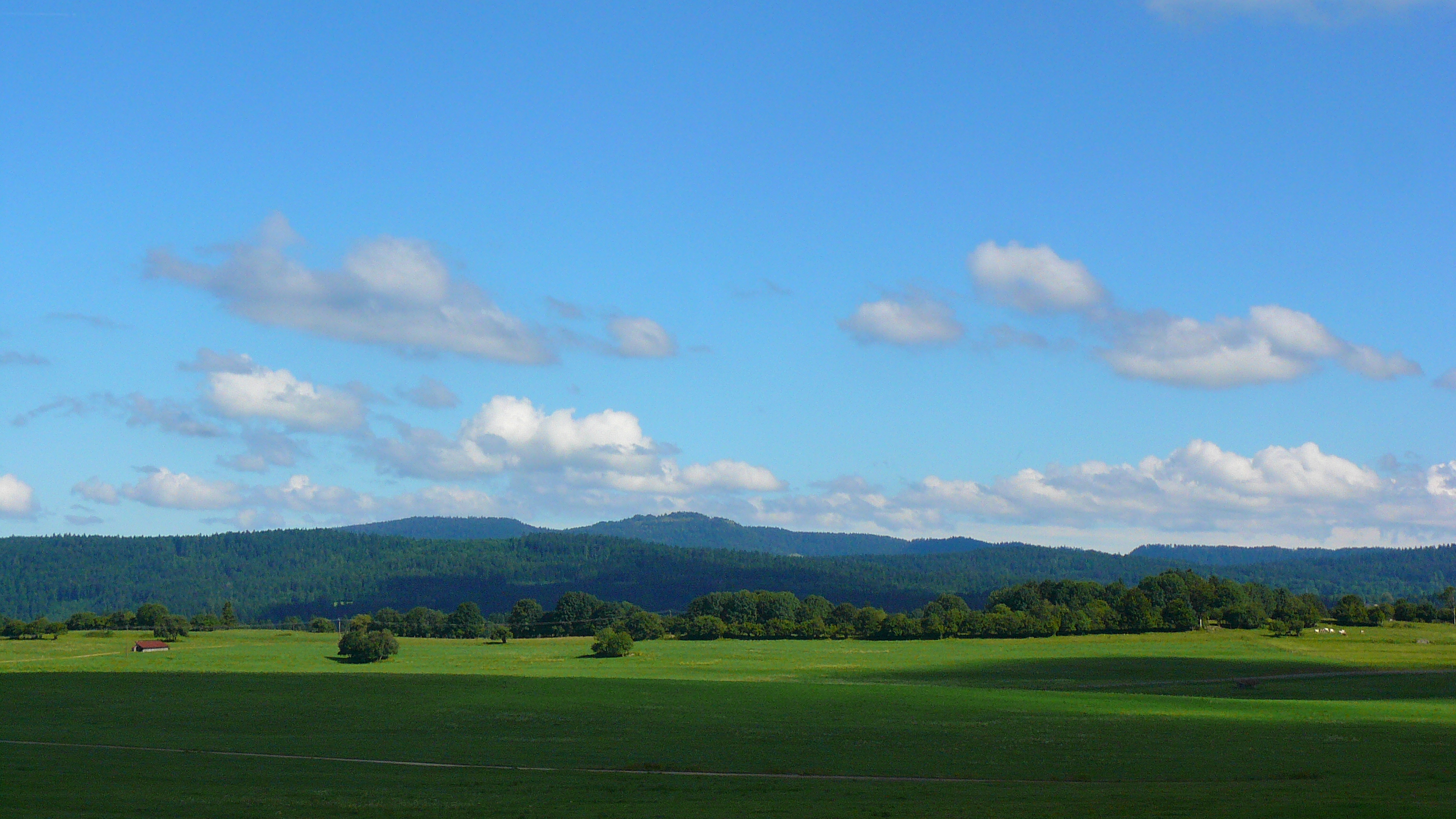 Saugeais Countryside in the Summer